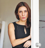 Khen Shish in her studio